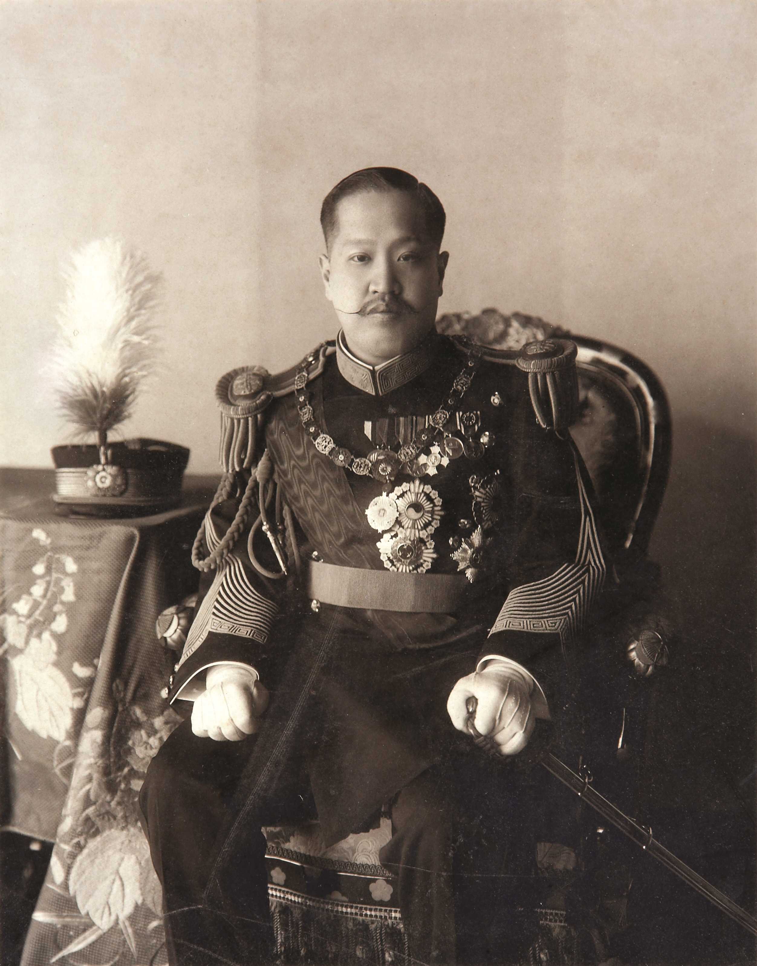 Sunjong of the Korean Empire Portrait